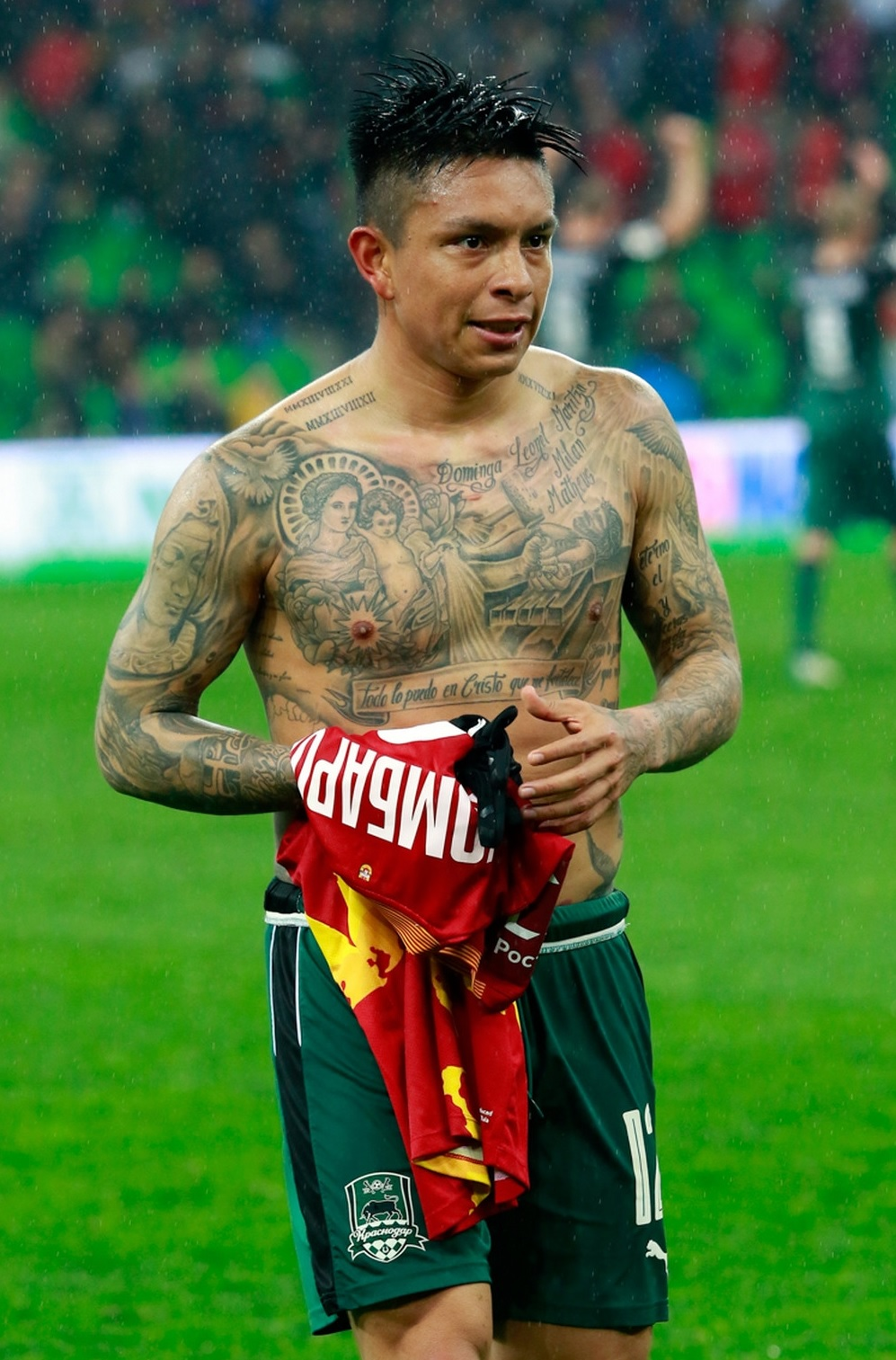 Cristian Ramírez after the game of FC Krasnodar against FC Arsenal Tula.